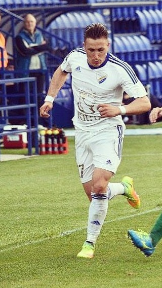 Duje Medak, croatian football player